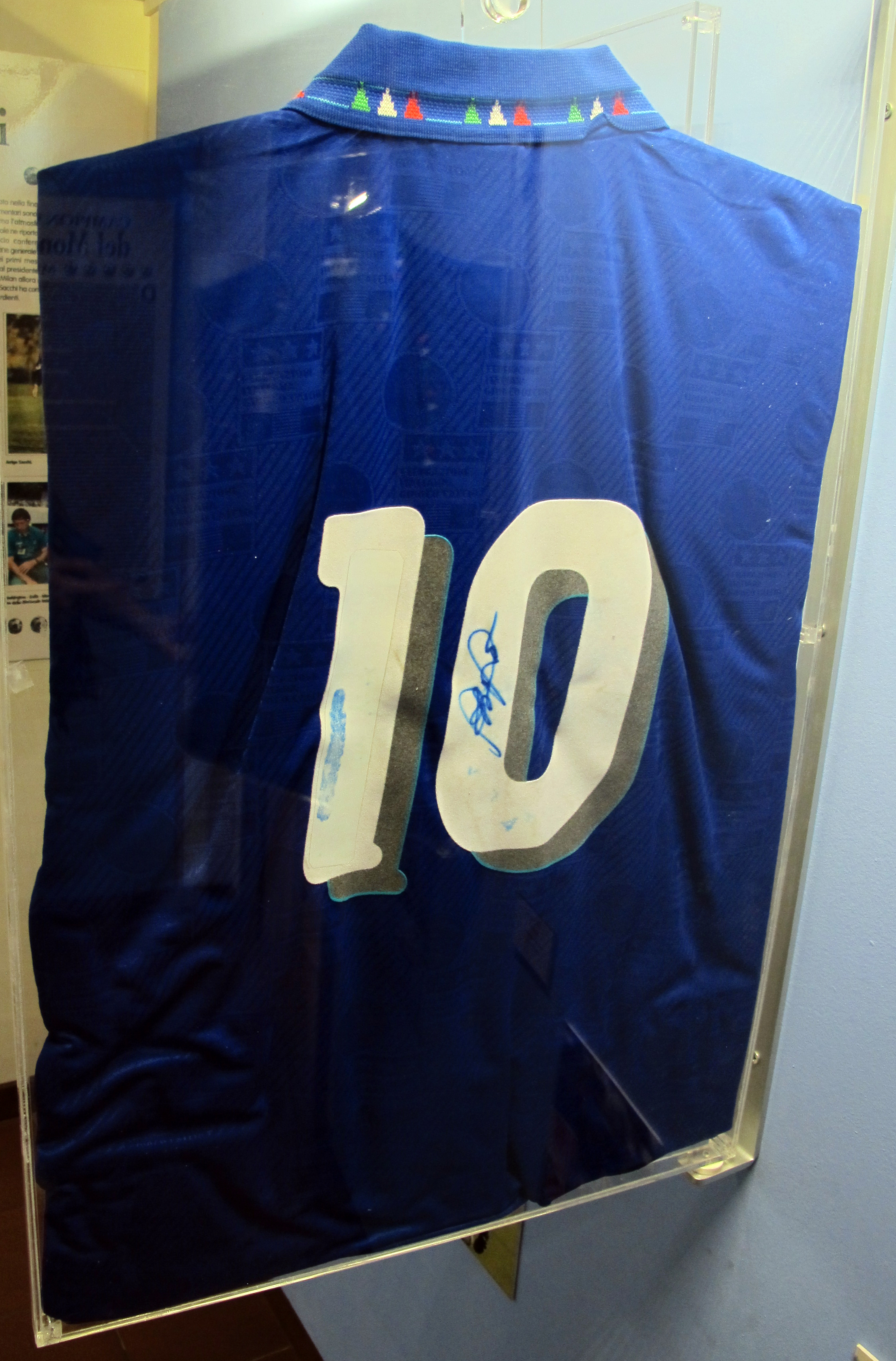 Collections of the Museo del Calcio (Florence)